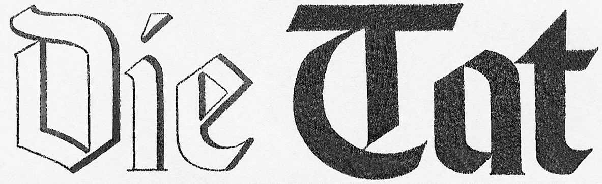 Logo of the former Swiss weekly newspaper Die Tat